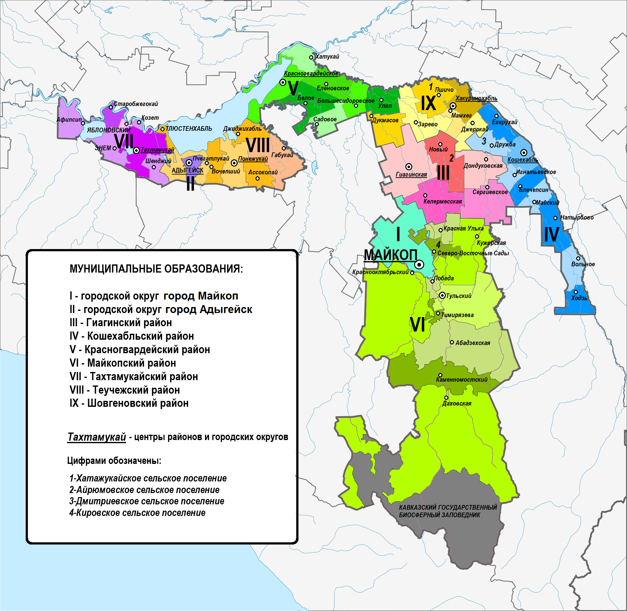 Administrative Map of Adygea